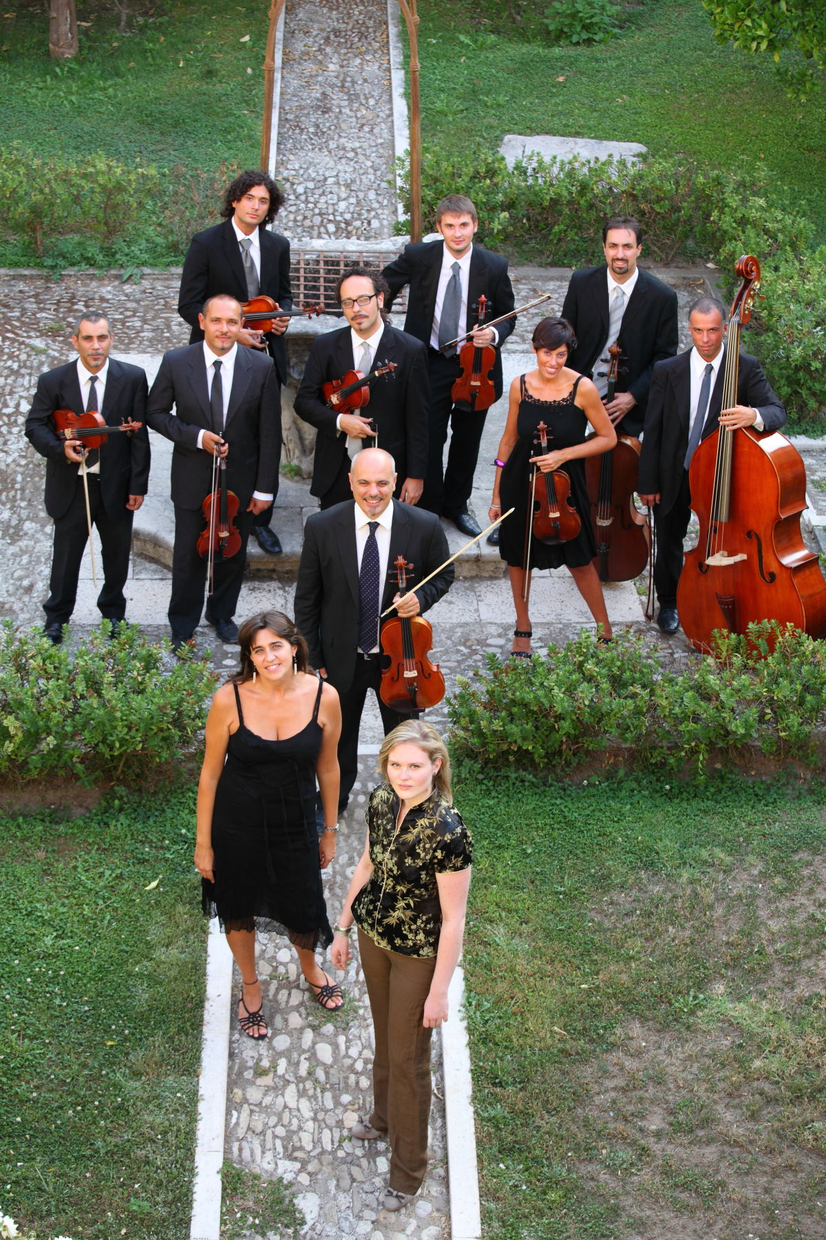 Santa Sophia Academy chamber Orchestra in Benevento, portrayed during the artistic direction by Carlotta Nobile (2010-2013). Carlotta Nobile (Rome, 1988 + Benevento, 2013) is the first from the bottom.